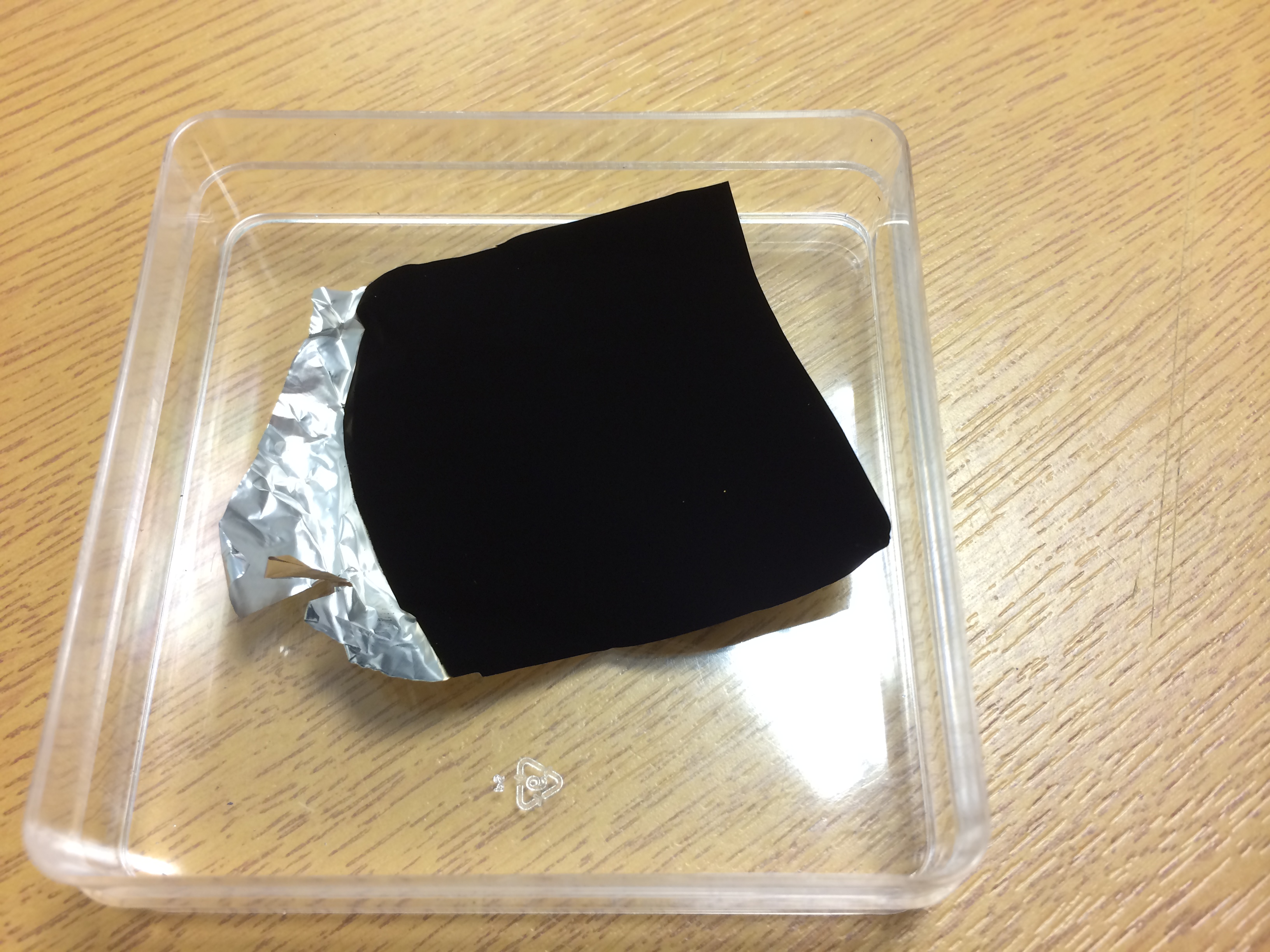 Vantablack grown on tinfoil